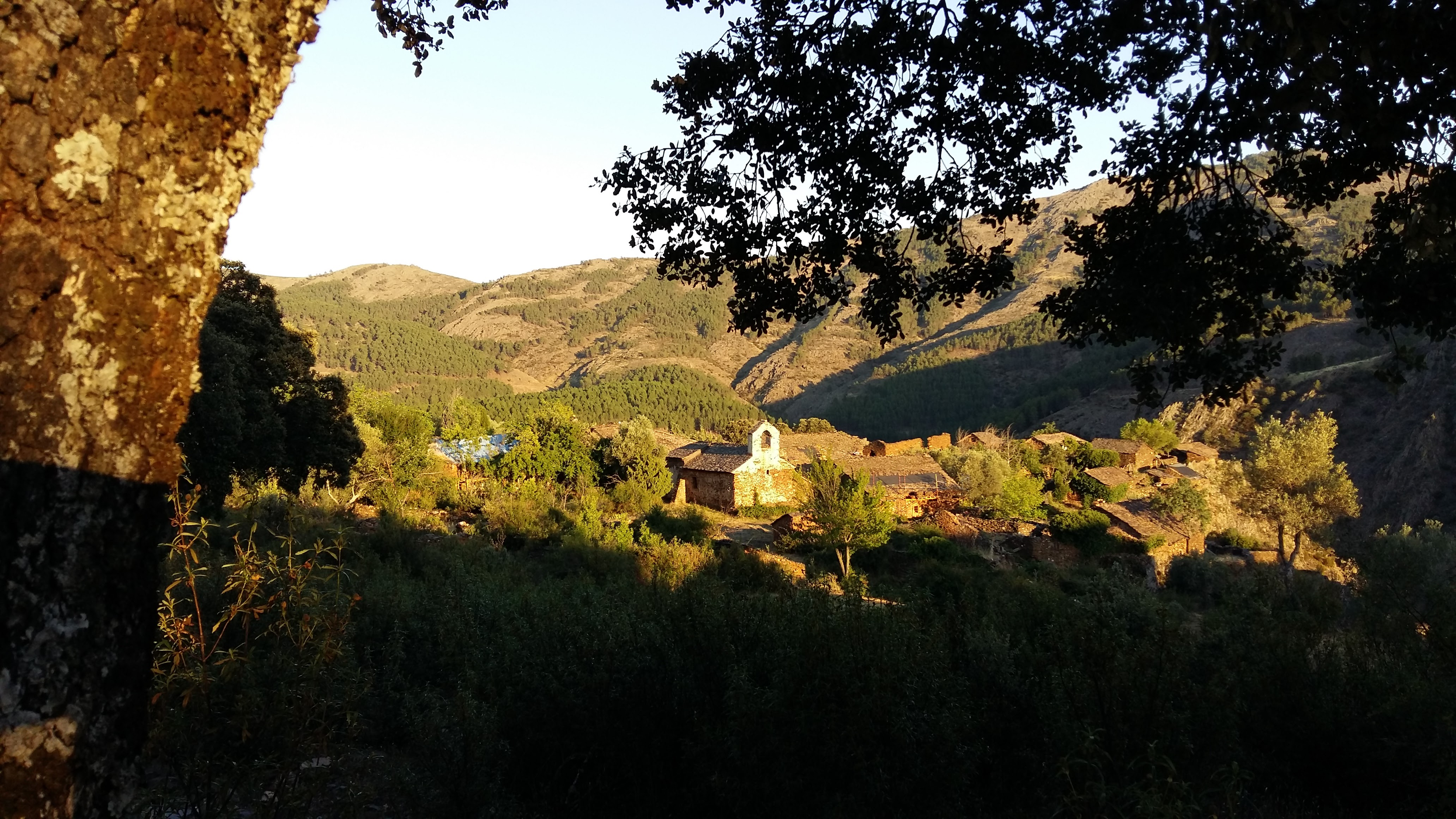 This is a photography of a Special Area of Conservation in Spain with the ID: ES0000164. Natura2000 entry, EEA entry